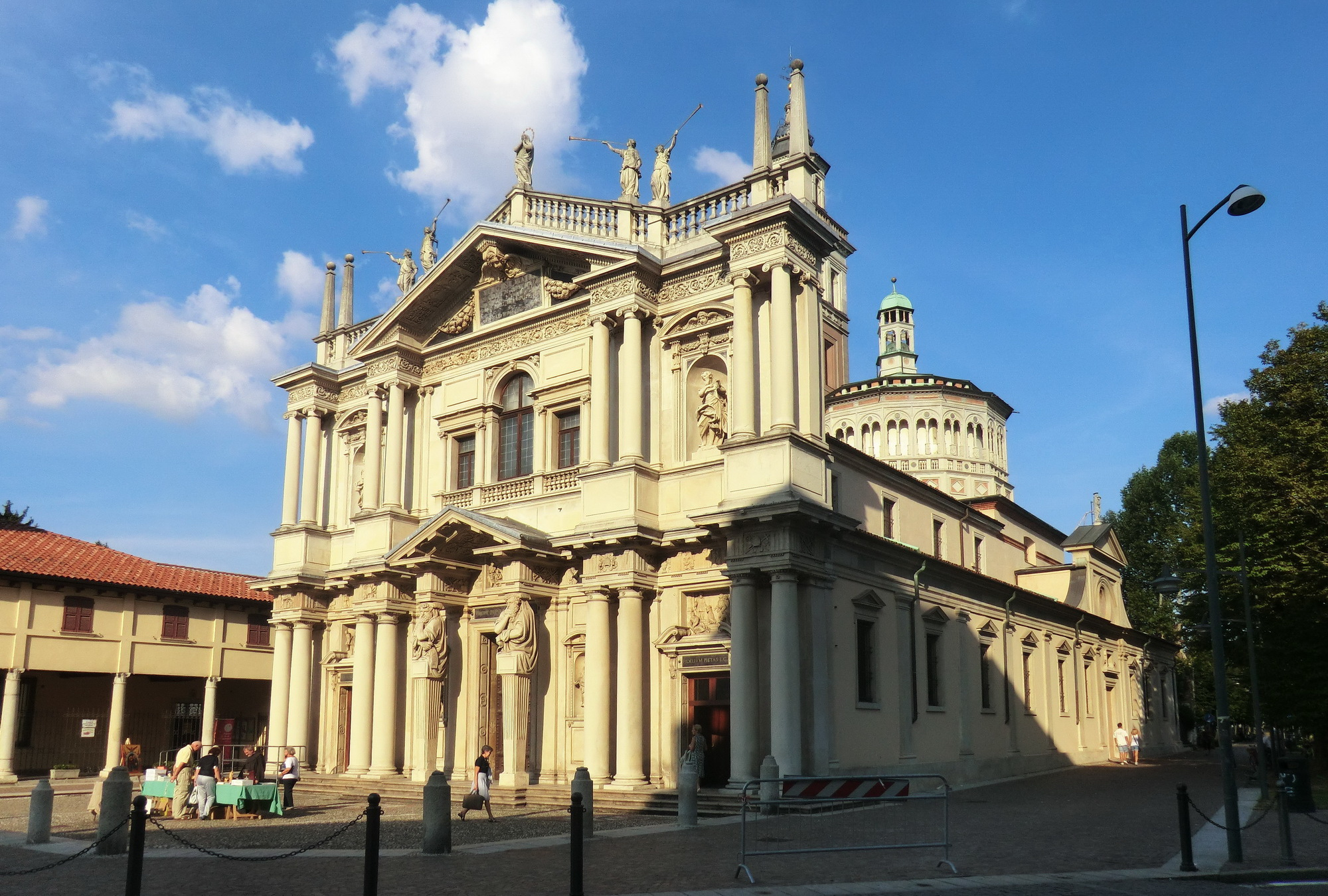 Santuario della Beata Vergine dei Miracoli, Saronno, Lombardy, Italy Santuario della Beata Vergine dei Miracoli Native nameSantuario della Beata Vergine dei MiracoliLocationSaronno, Lombardy, ItalyCoordinates45° 37′ 35″ N, 9° 01′ 32″ E Authority control : Q3471763